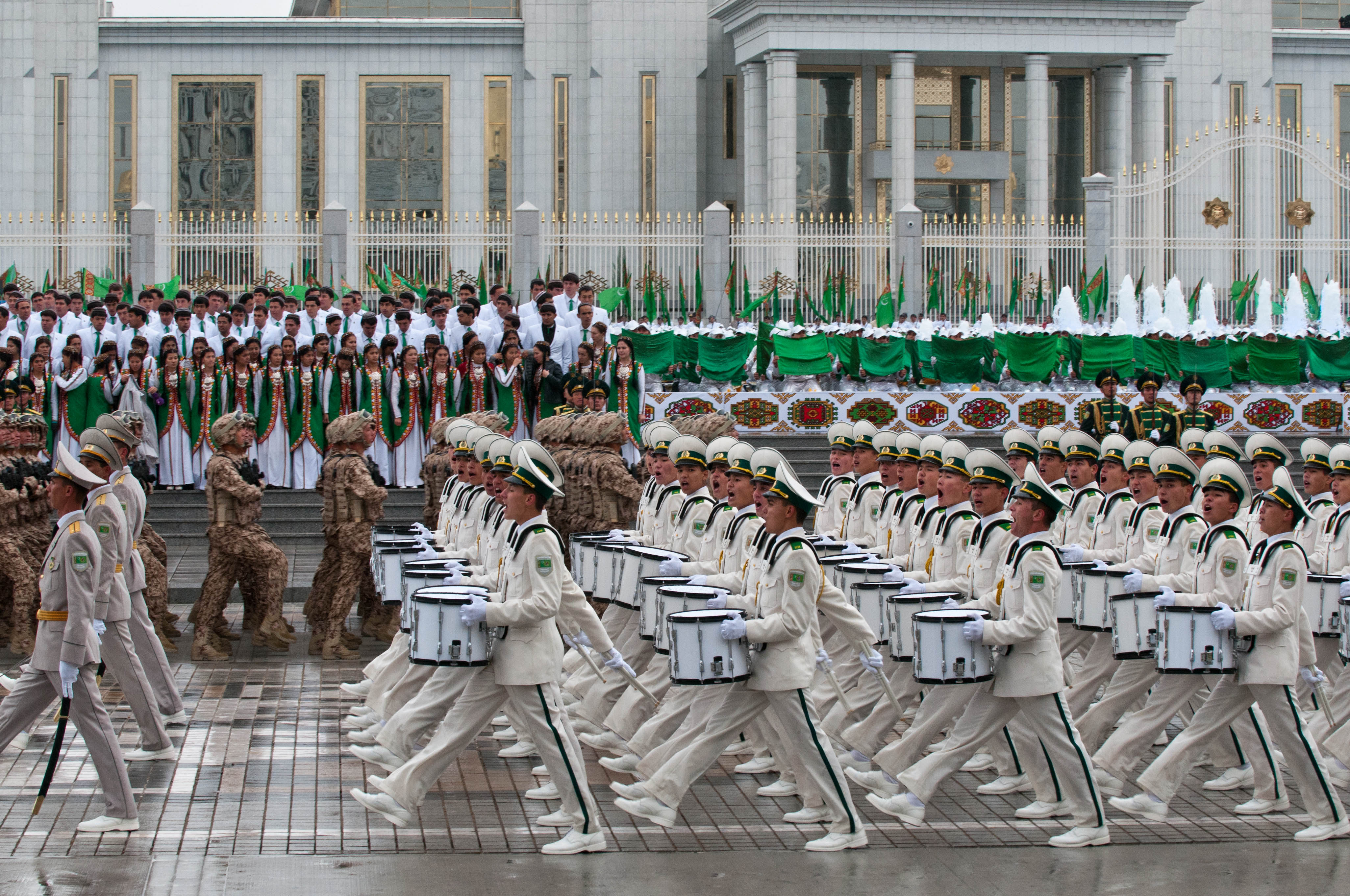 Celebrating the 20th year of independence in Turkmenistan